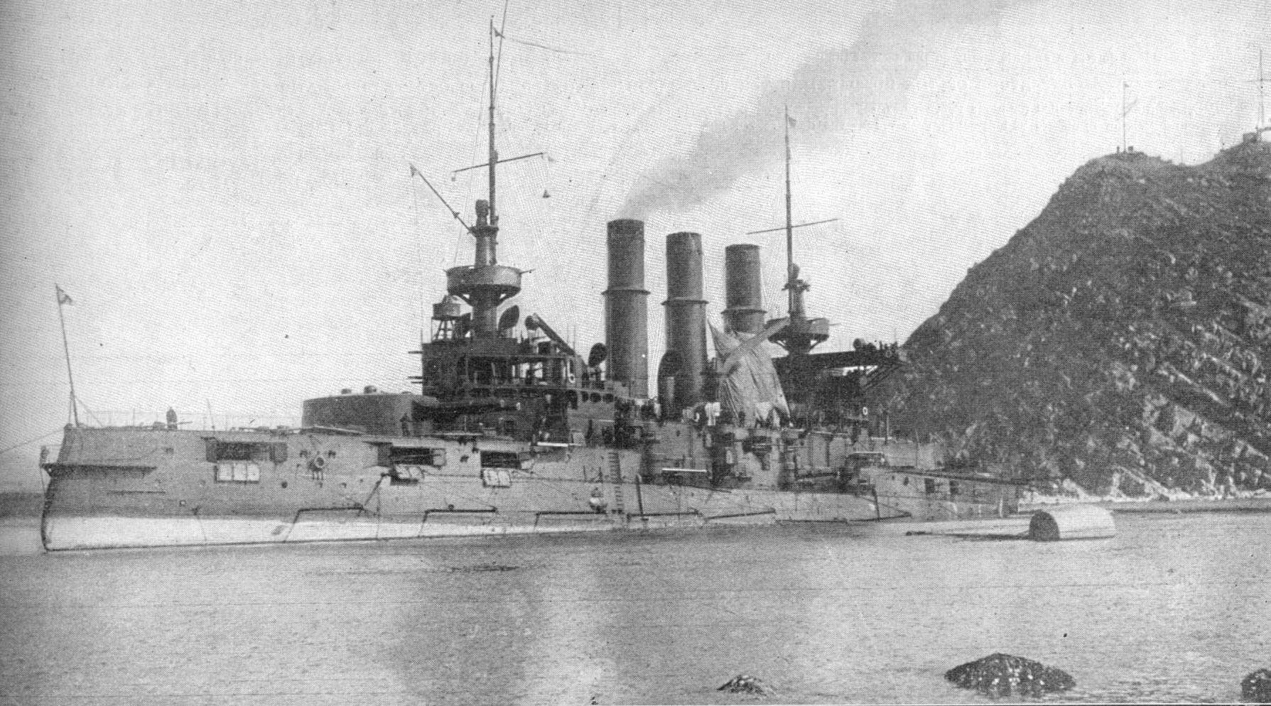 Battleship Retvizan.